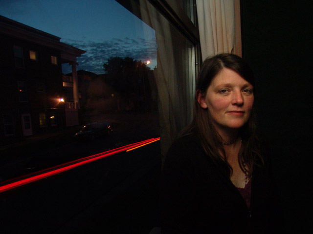 Notable cartoonist Chris Monroe being interviewed in Duluth.